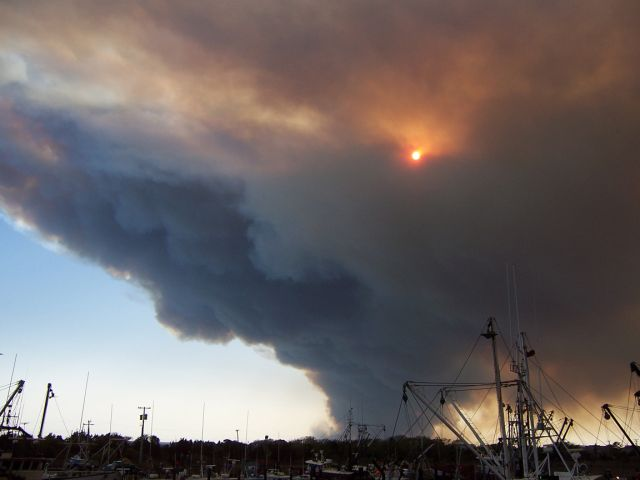 The late-afternoon sun shining through smoke during the 2007 Pine Barrens forest fire. The photograph was taken from Barnegat Light, New Jersey.